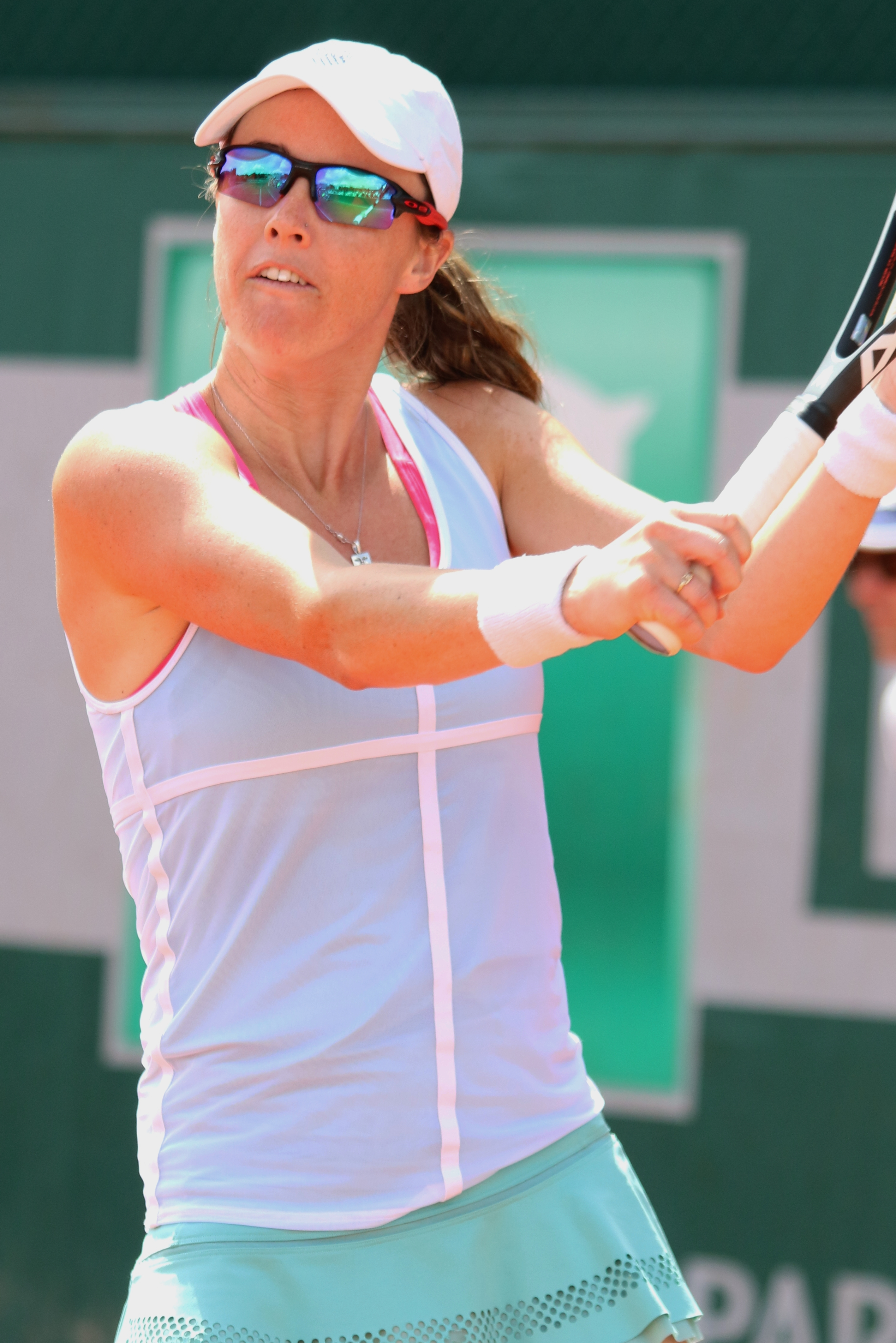 Christian RG18 (4)